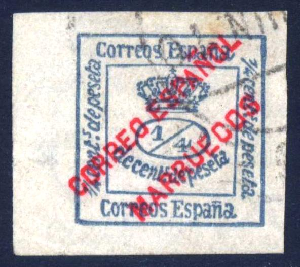 Postage stamp for the Spanish Post Offices in Morocco, issued 1903. Value a quarter Centimo. Michel Catalogue No. 5